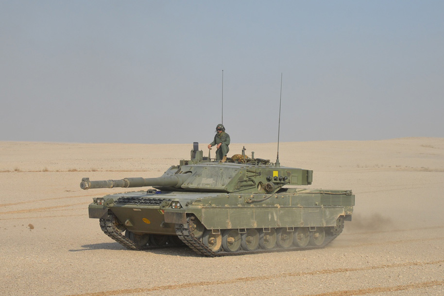 Italian Army - 4th Tank Regiment - Ariete main battle tanks during the NASR 19 exercise in Qatar